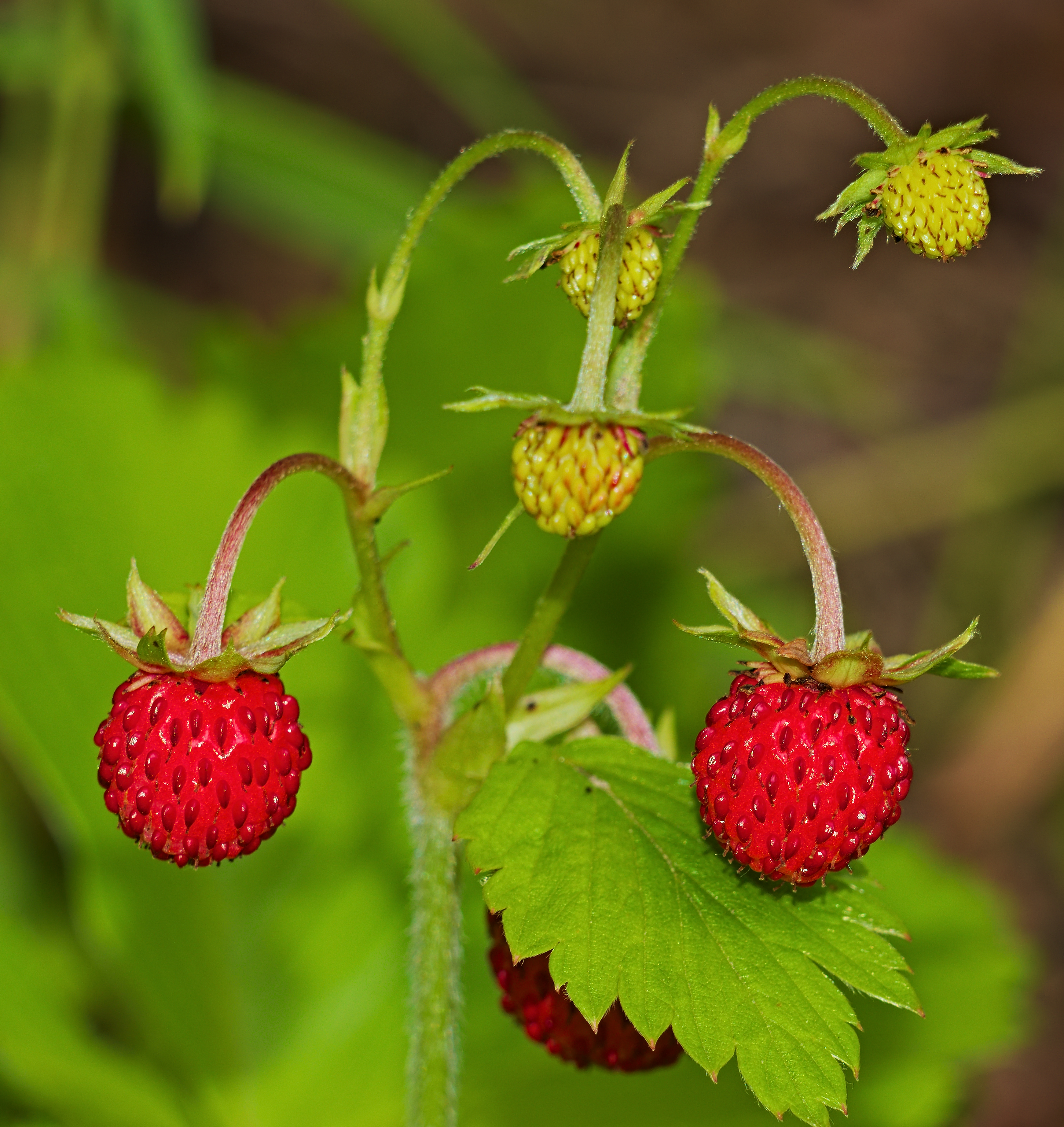 Wild strawberry - Fragaria vesca. Taken in Bonsweiher, Hesse, Germany.